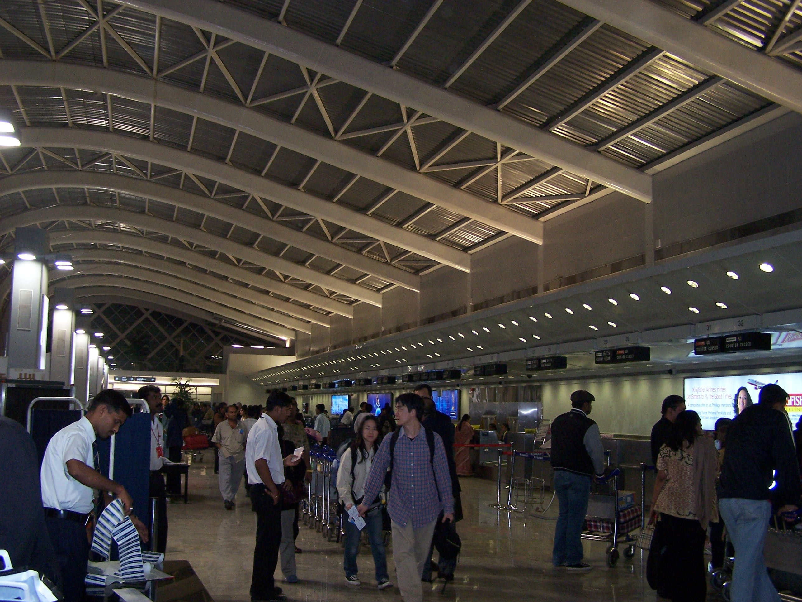 Domestic airport Santa Cruz (Mumbai, India) Photograph taken January 1, 2006 by SK Desai. Interior of the domestic terminal. (User:L1CENSET0K1LL)